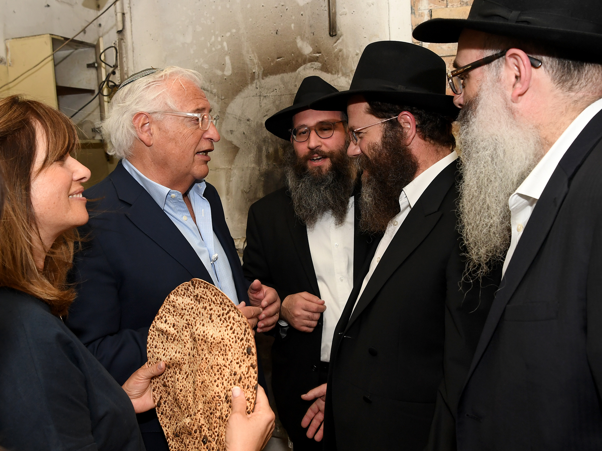 Ambassador and Tammy Friedman visit Kfar Chabad 03/20/2018